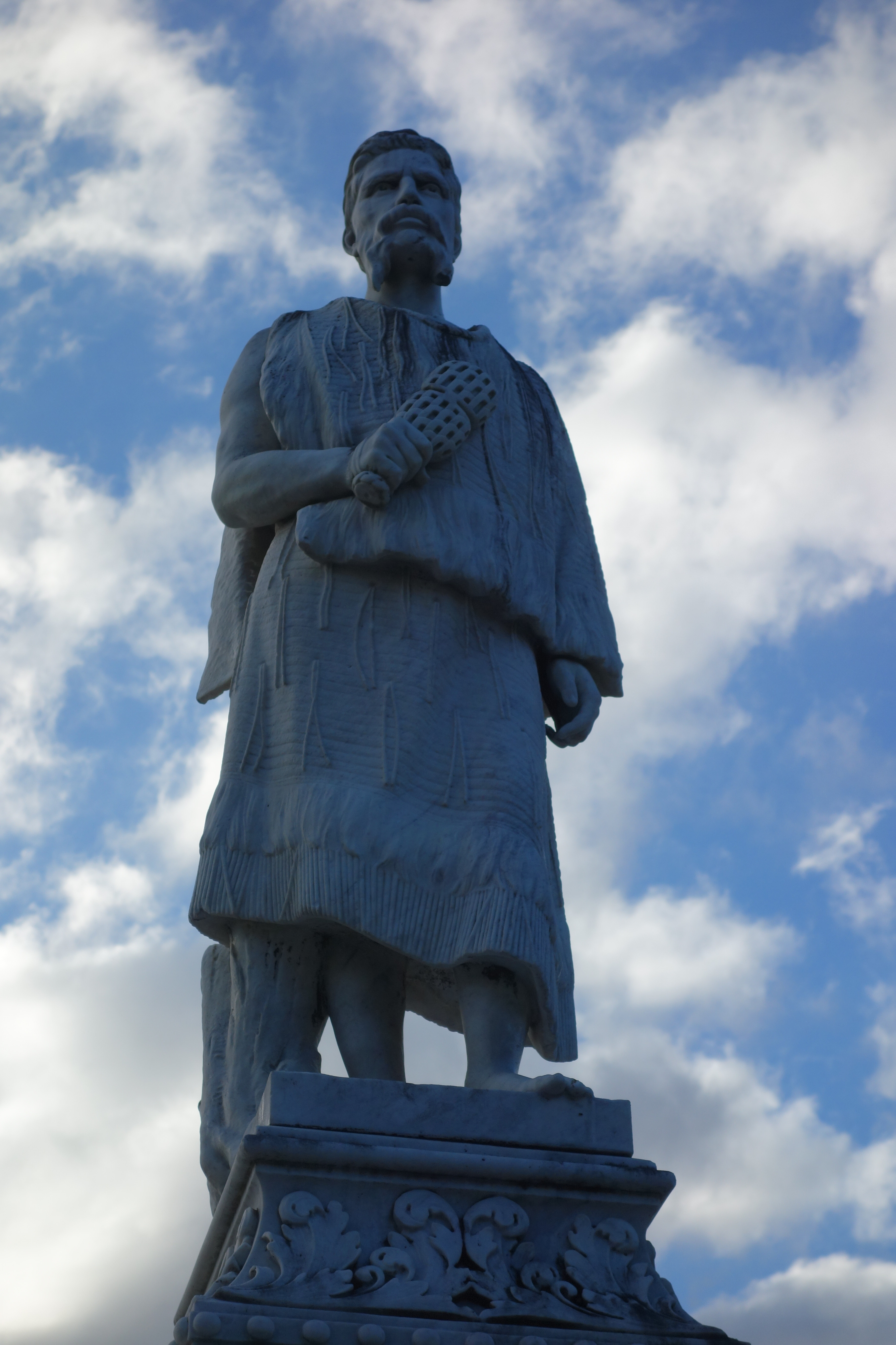 Te Peeti Awe Awe Memorial in Palmerston North